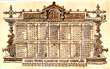 Wallet calendar of 1886, Russia